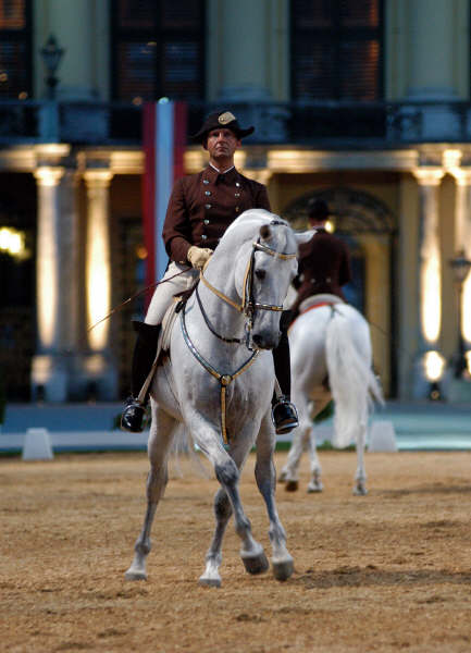 Lipizzaner stallion, performance Schönbrunn Palace, ridden by Chief Rider Andreas Hausberger